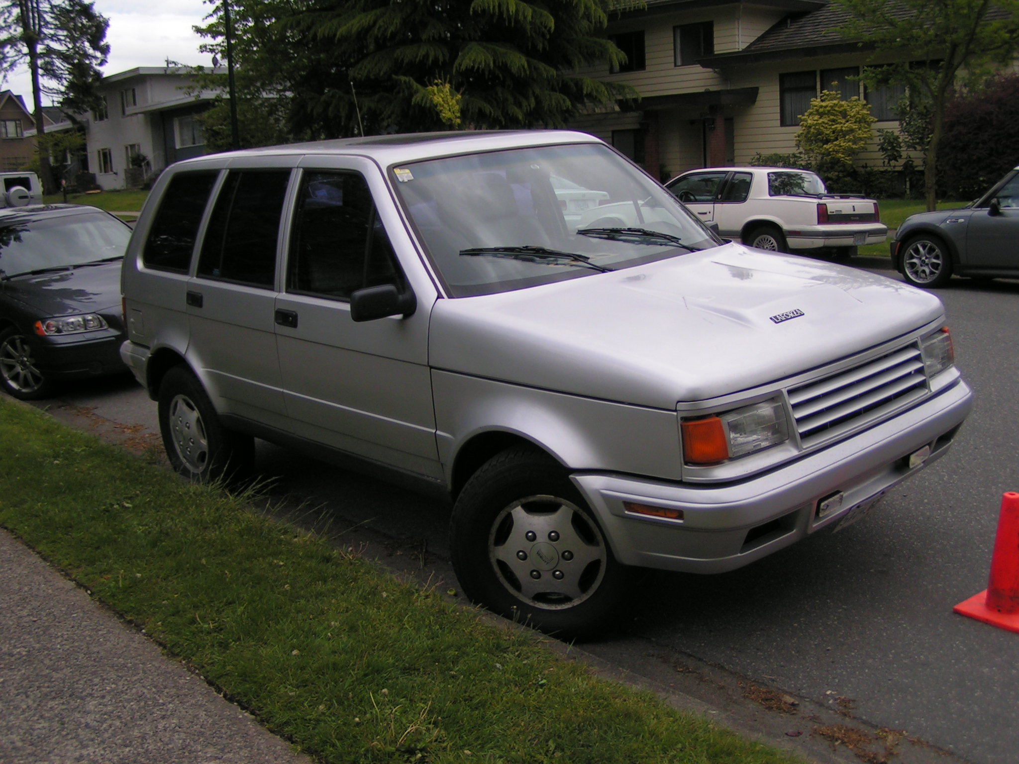 Laforenza - Never seen one of these before but spotted it outside the All British Field Meet show.